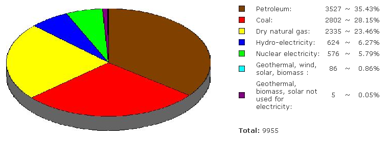 Pie chart made with data from EIA and BP. and Note: These are petroleum equivalents, and not actual energy consumptions, - 1 kWh = 3412.1416 Btu, approximately.